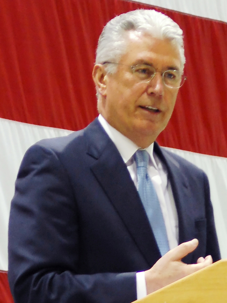 Dieter F. Uchtdorf, the Second Counselor in the First Presidency of The Church of Jesus Christ of Latter-day Saints.